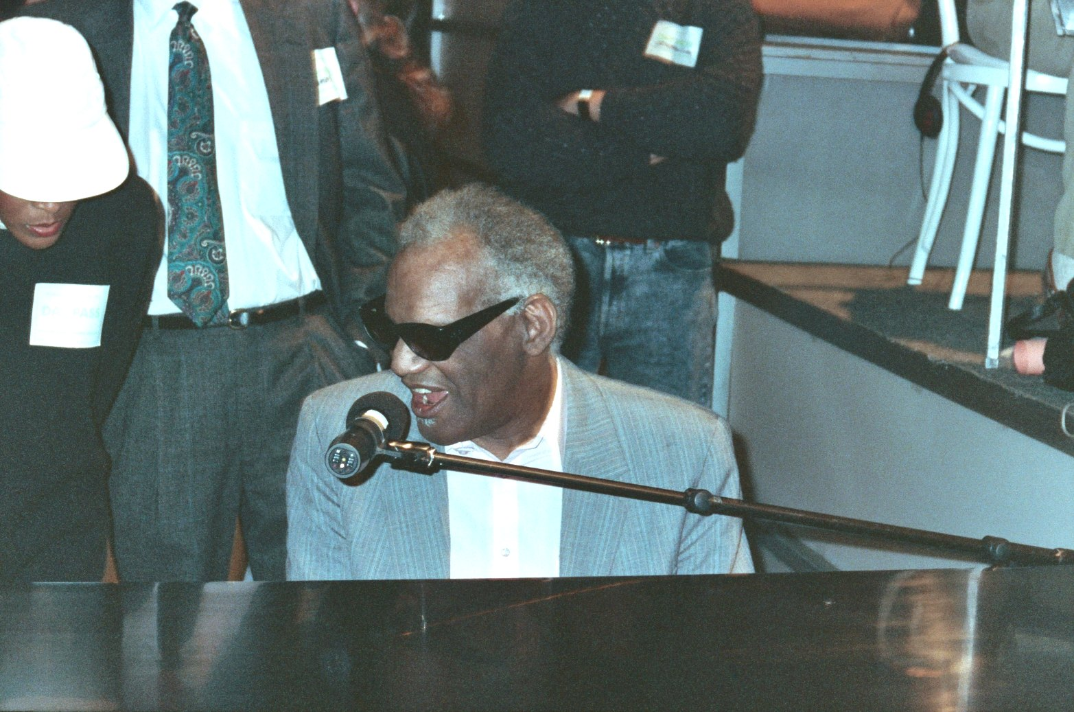 1990 Grammy Awards NOTE: Permission granted to copy, publish, broadcast or post any of my photos, but please credit "photo by Alan Light" if you can. Thanks. Scanned from the original 35MM film negative.